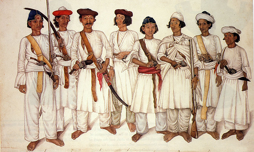 Eight Gurkha men depicted in a British Indian painting. During the 18th and 19th centuries, the British employed Indian artists to illustrate the manners and customs of India and to record scenes of monuments, deities, festivals, and occupations.This is one such 'Company' painting commissioned by William Fraser in 1815 whilst he was Deputy Resident of Delhi.